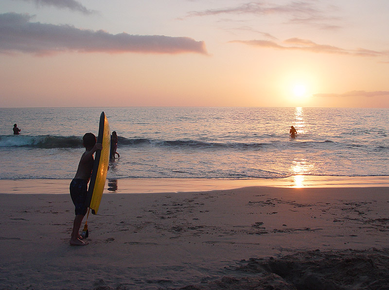 A young bodyboarder prepares to run into the waves at Hapuna Beach on the Big Island of Hawaii.